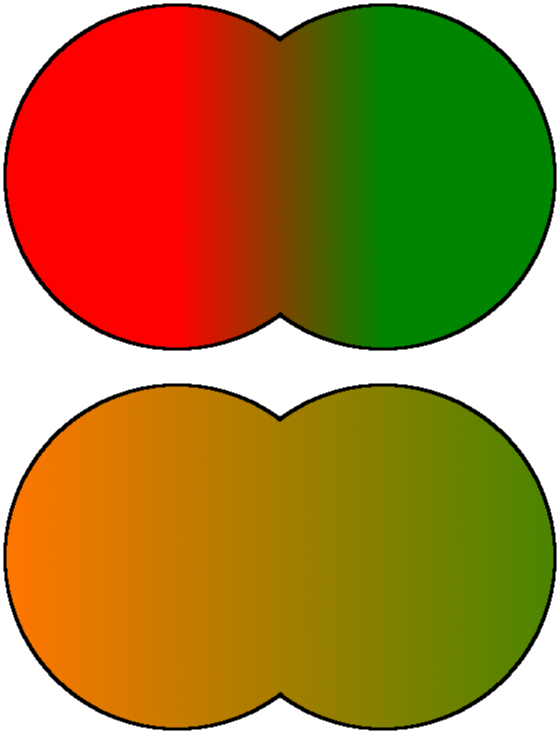 Comparison of small island model (top) and isolation by distance (bottom) distributions.